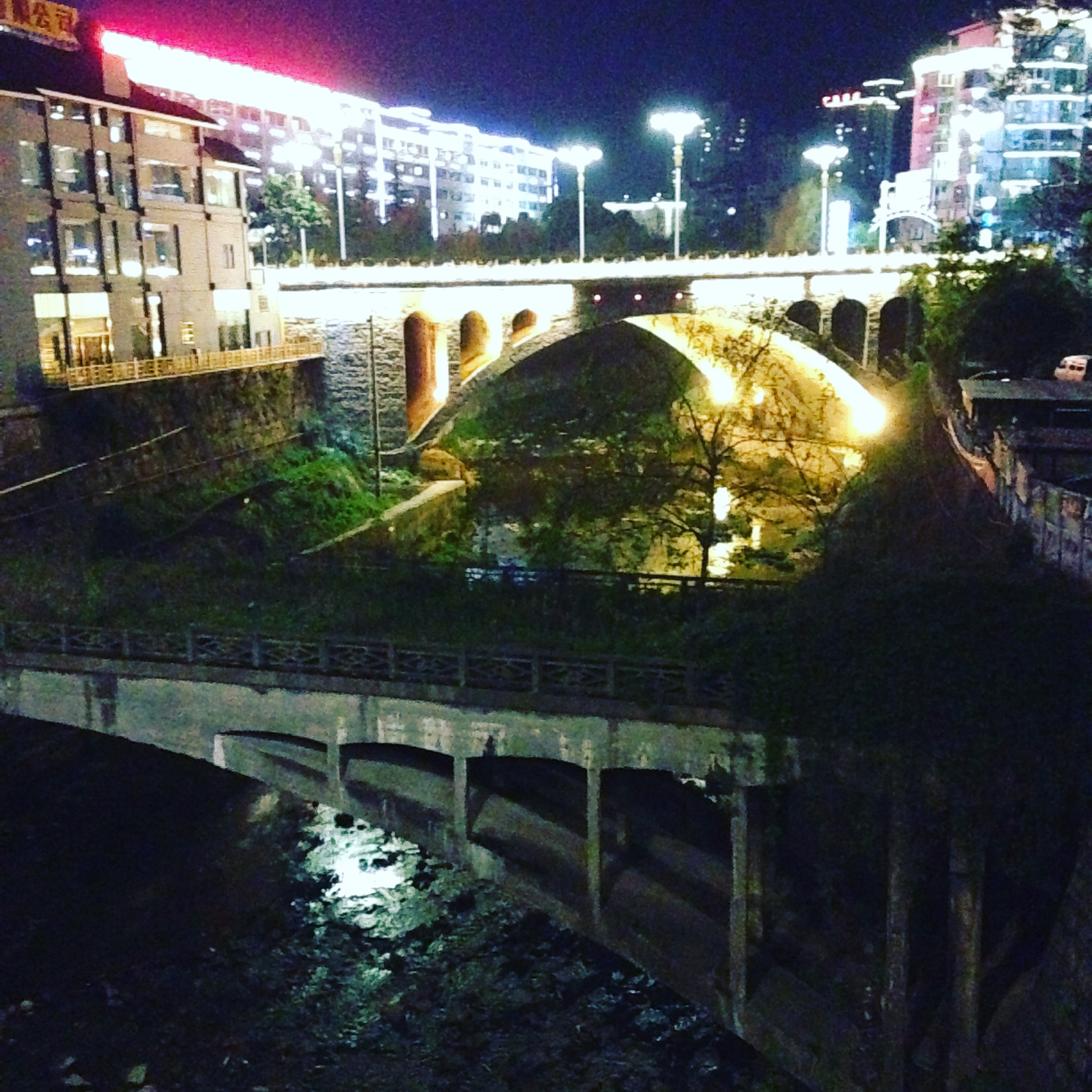 Old and new bridges, Zunyi